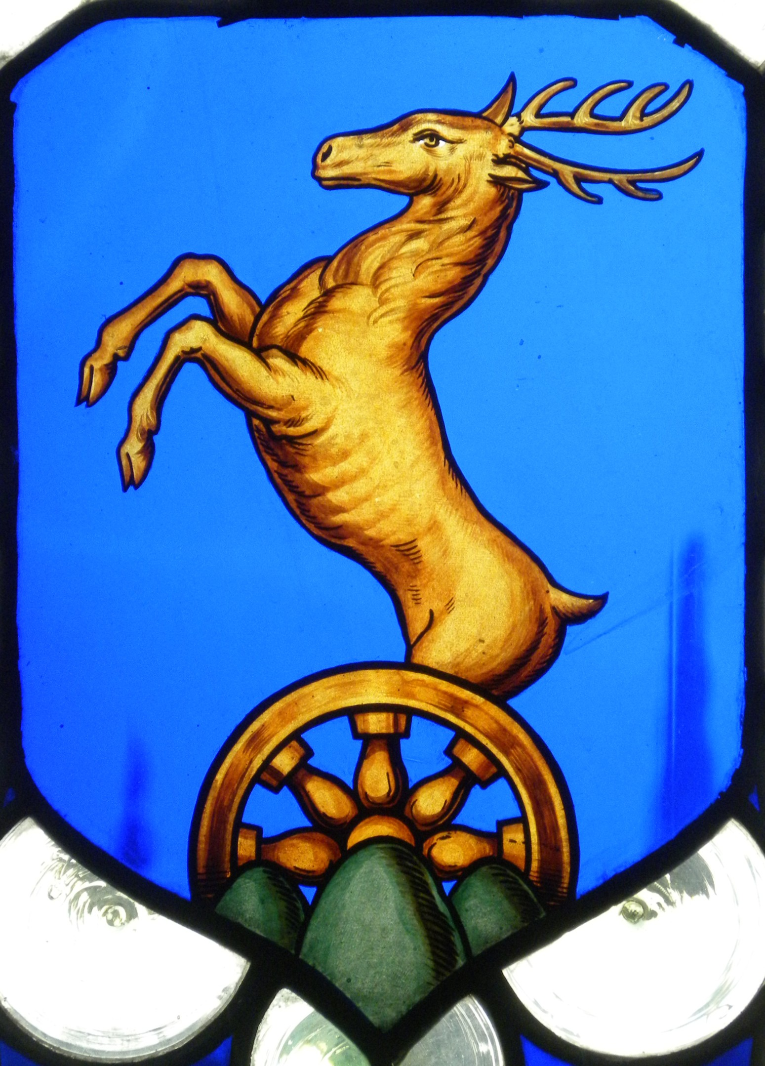 Coat of arms of County of Bratislava (identical with Pálffy family coat of arms, Old Townhall, Bratislava.